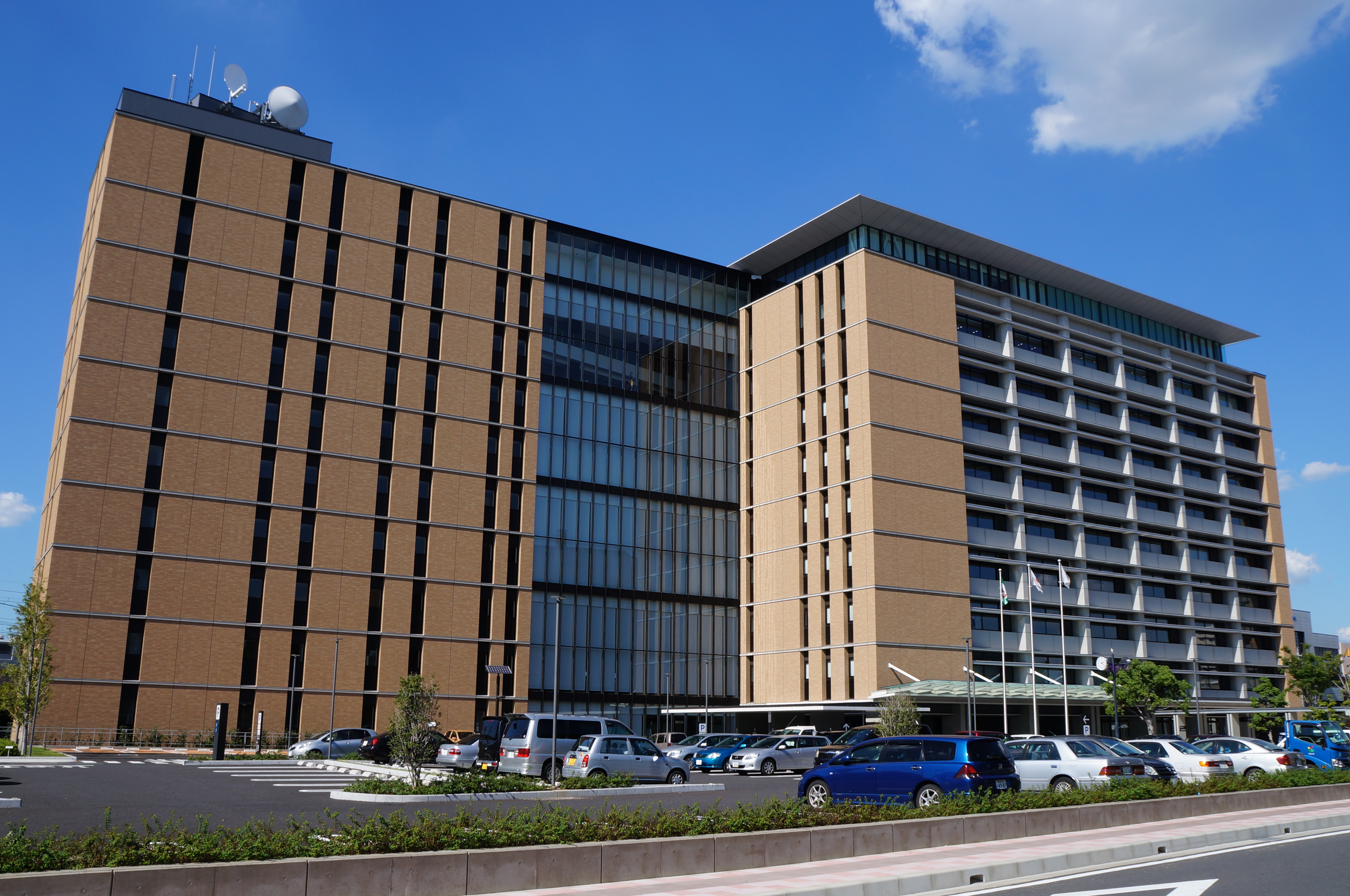 Kariya City Hall